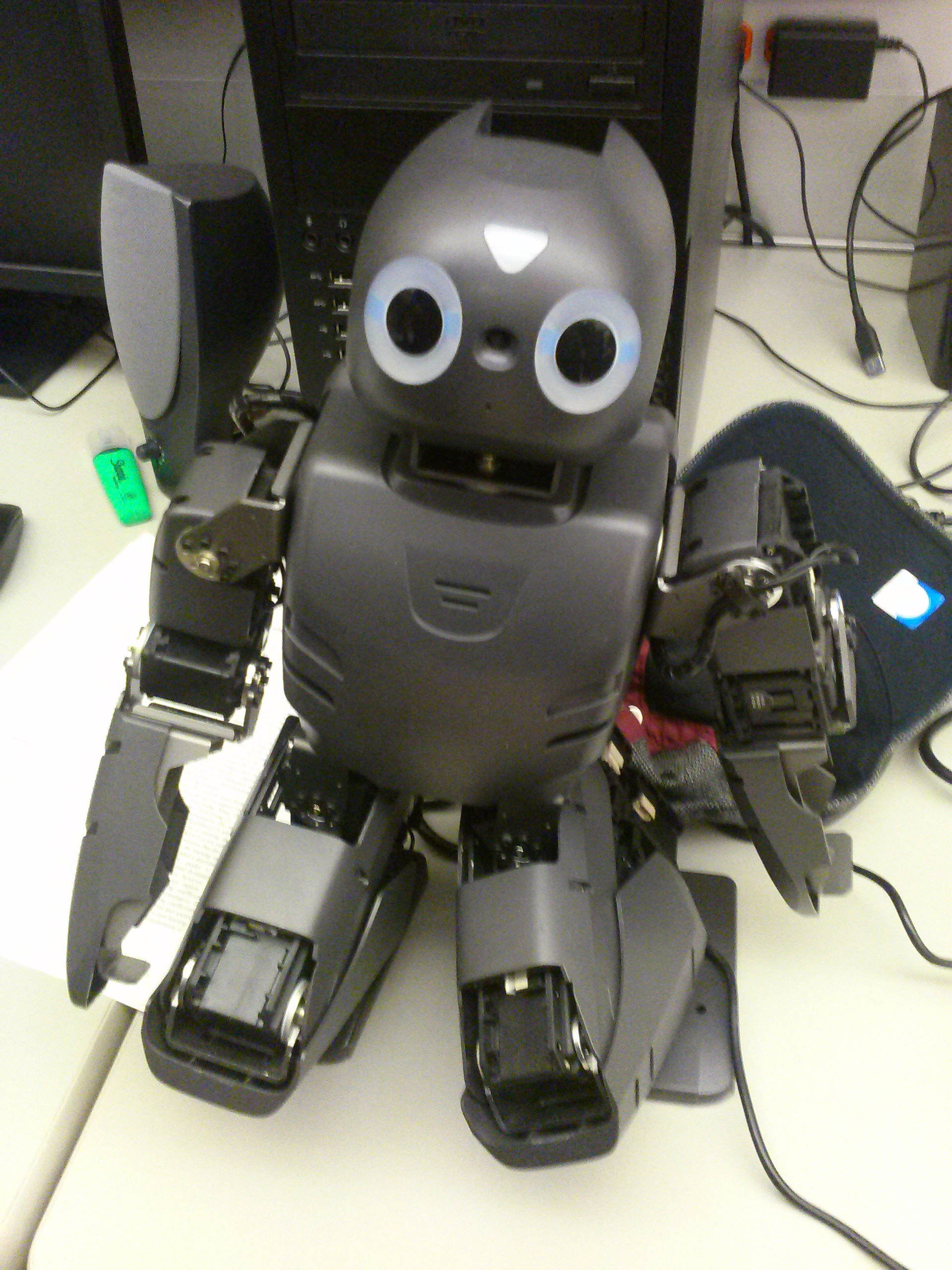 A DARwIn-OP robot in the Distributed Robotics Laboratory at the University of Minnesota, Twin Cities.